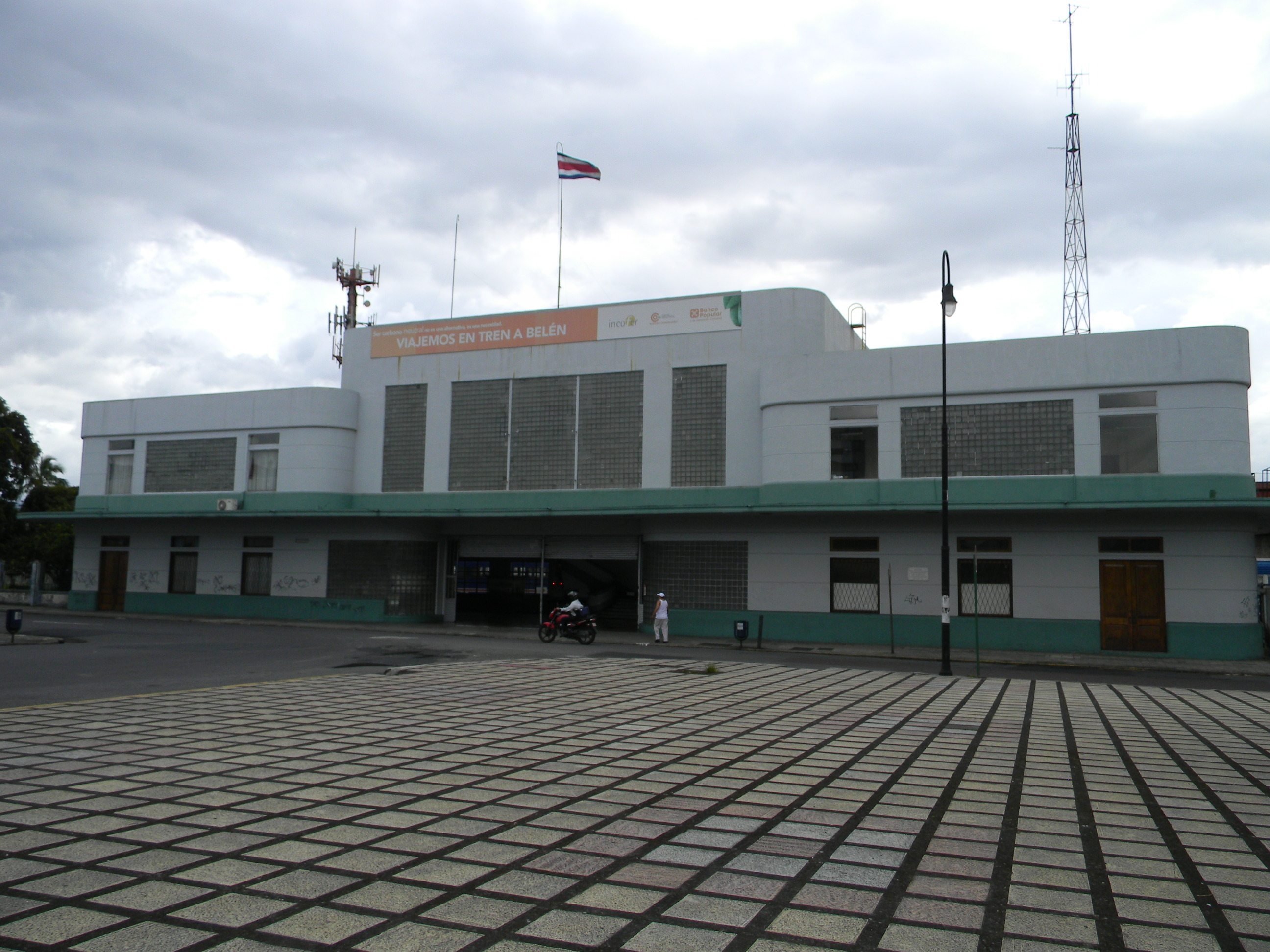 This is the new, Pacific Railroad Station in San Jose, Costa Rica.